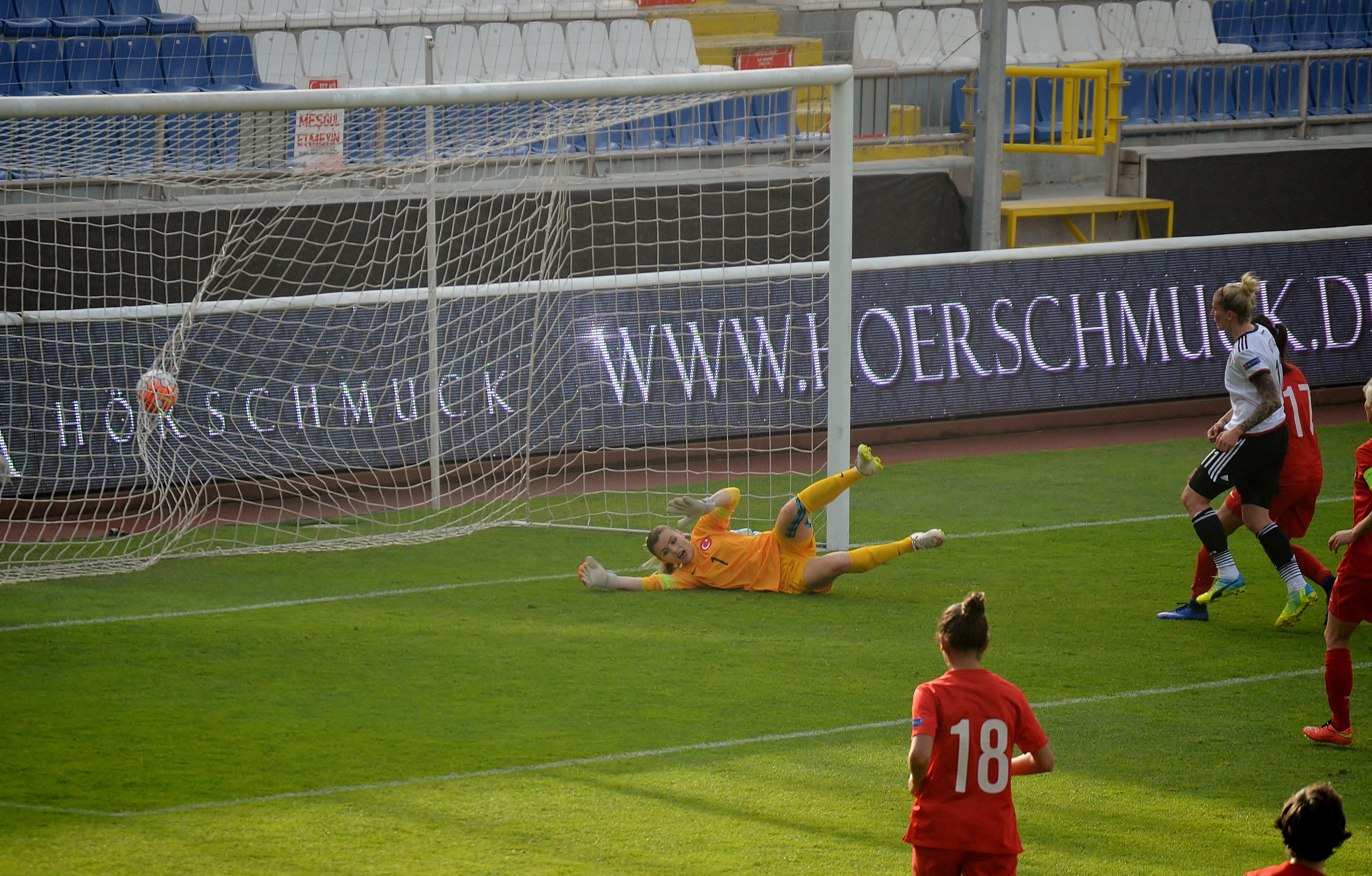 Sela Akgöz playing for Turkey national at the UEFA Women's Euro 2017 qualifying Group 5 match against Germany in Istanbul, urkey